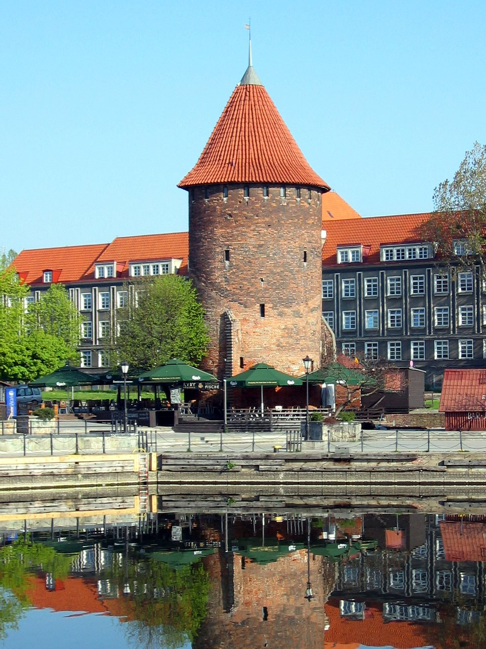 Swan Tower in Gdańsk (2006) Rafał Konkolewski 2006